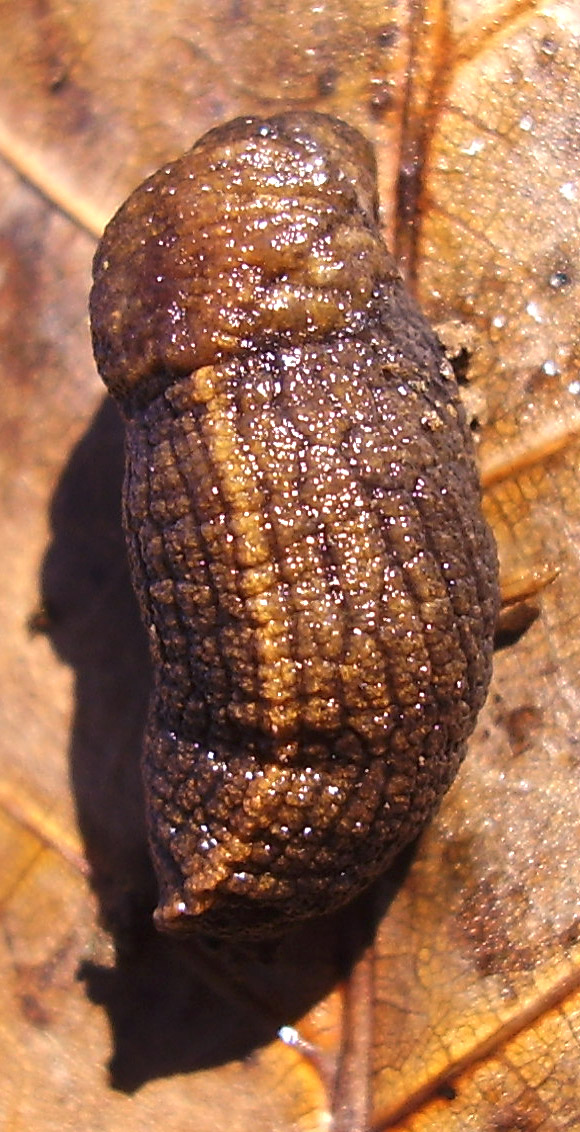 Tandonia budapestensis. Locality: Bulgaria: Stara Zagora.